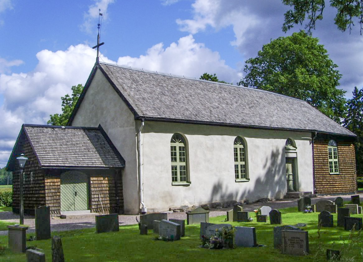 The church in Tveta, Småland.